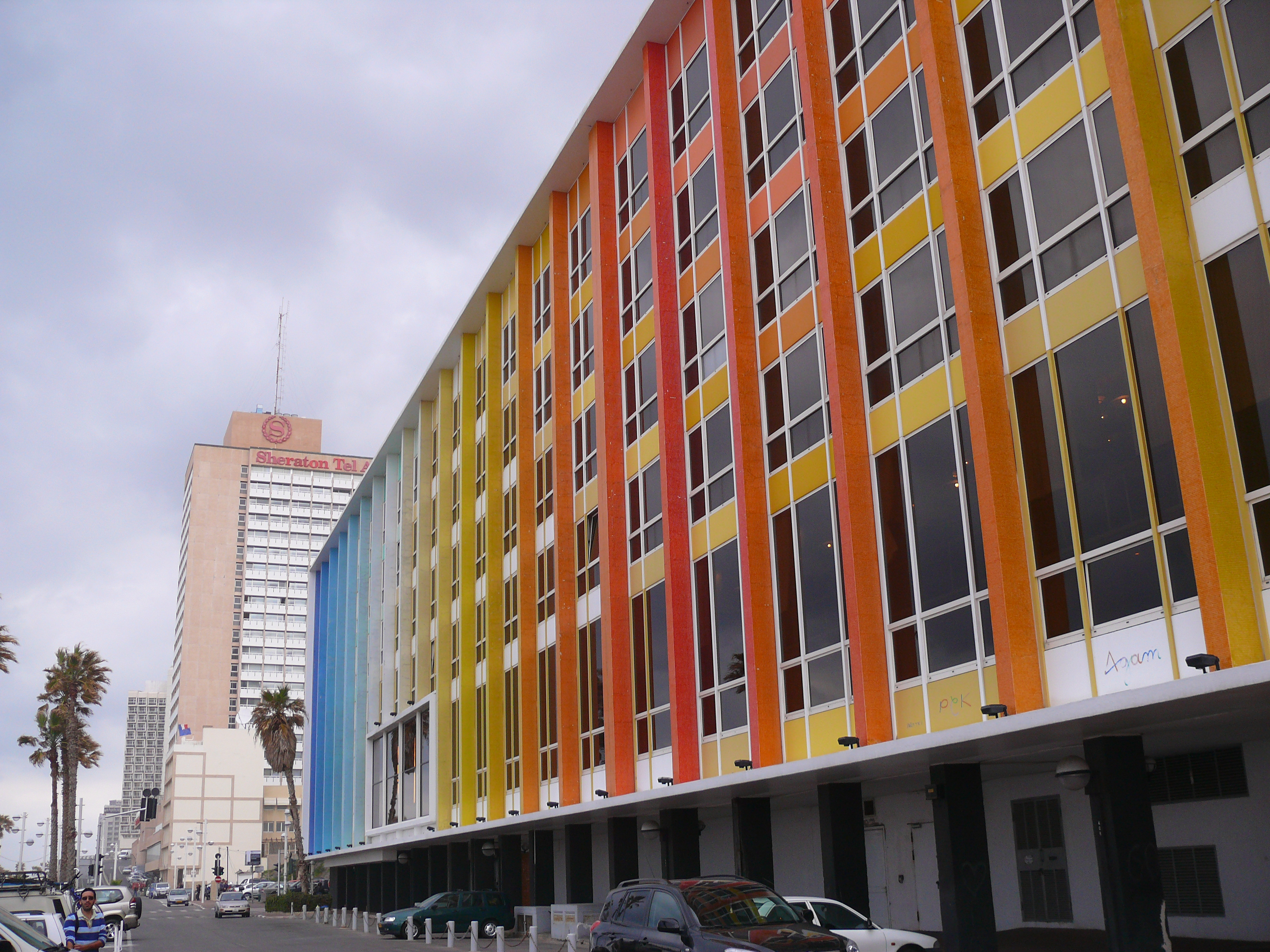 Facade of Dan hotel, Tel Aviv, Israel, by Yaacov Agam